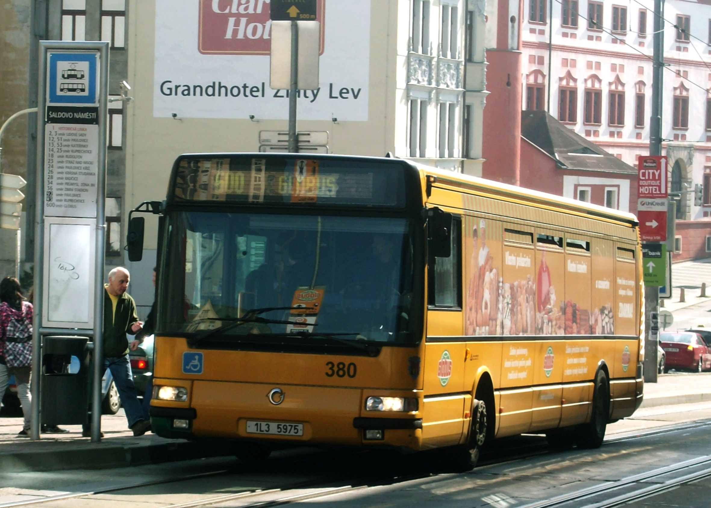 Irisbus Agora S, Liberec